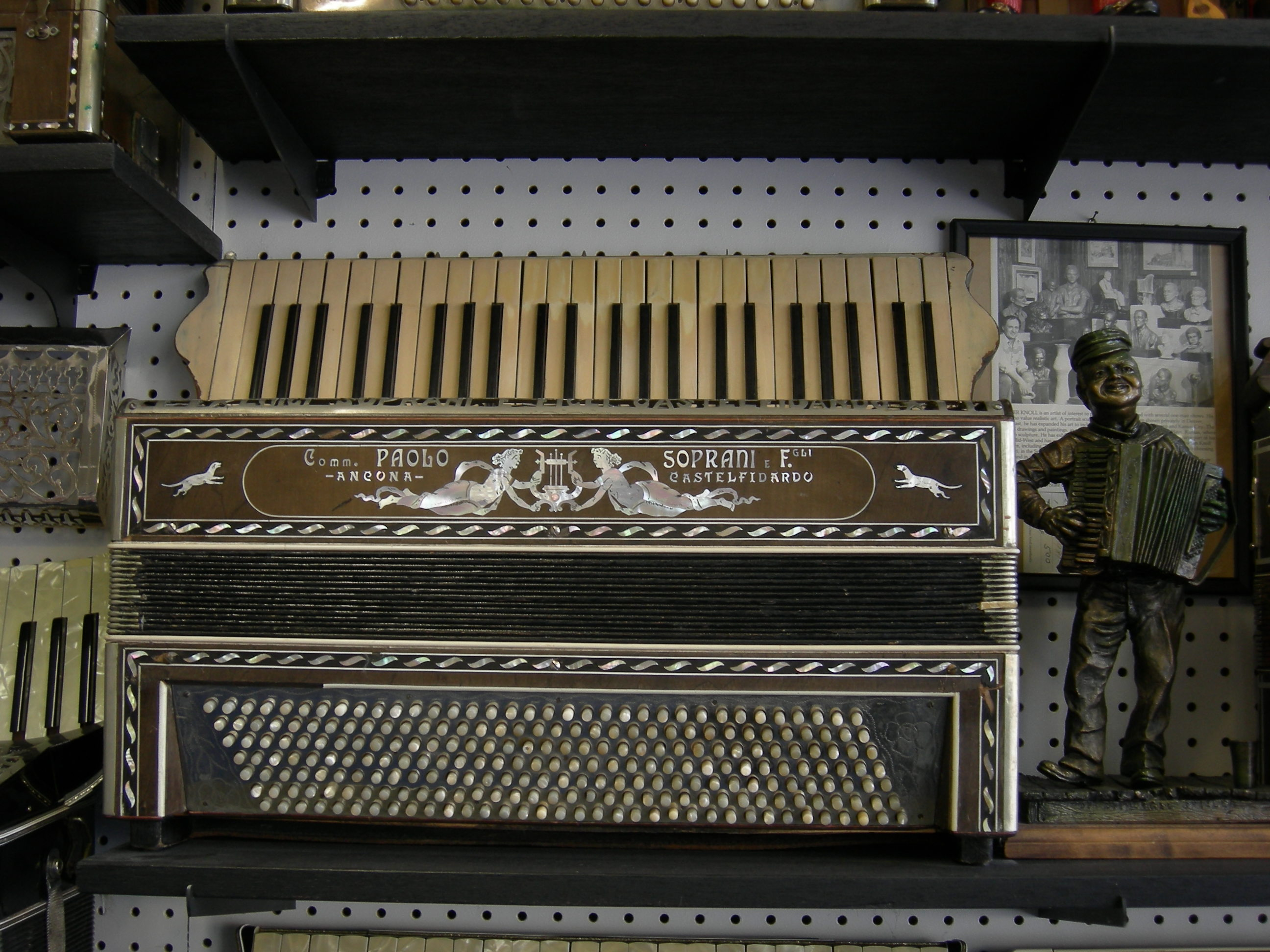 Old accordion in the collection of Petosa Accordions, Seattle, Washington, on display in their shop. Markings on it say "Paolo Soprani E. Fgli" ("Paolo Soprani & Sons Company"). Soprani was a famous manufacturer of accordions, founder of the accordion industry in Castelfidardo, Italy, which is where Petosa now do much of their manufacturing (the rest is in the workshop of their store in Seattle). If someone knows more about accordions, please feel free to enhance the description.